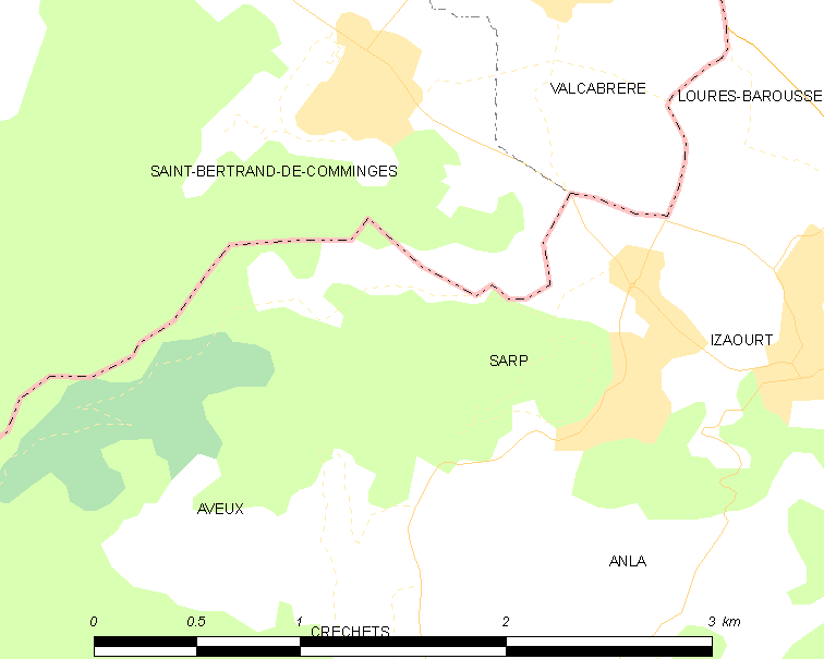 Map of French municipality